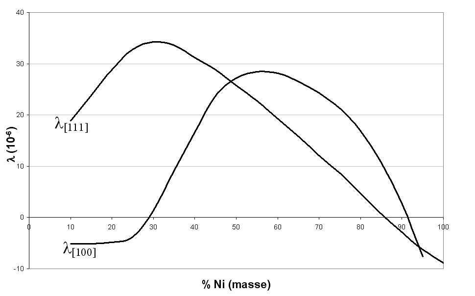 Magnetostriction coefficient of iron-nickel alloys (including Invar) fonction of the nickel content